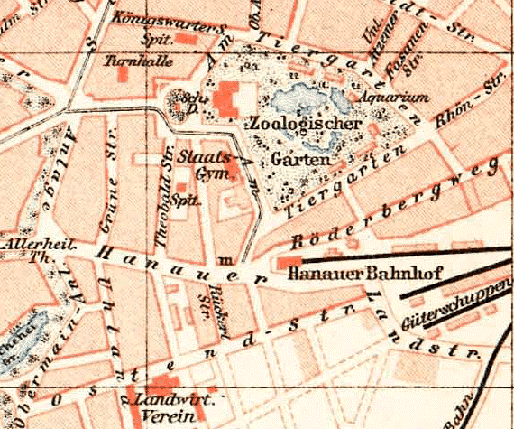 Frankfurt city map, 1893, showing the East End, the Zoo and Hanauer Bahnhof (today's East station).